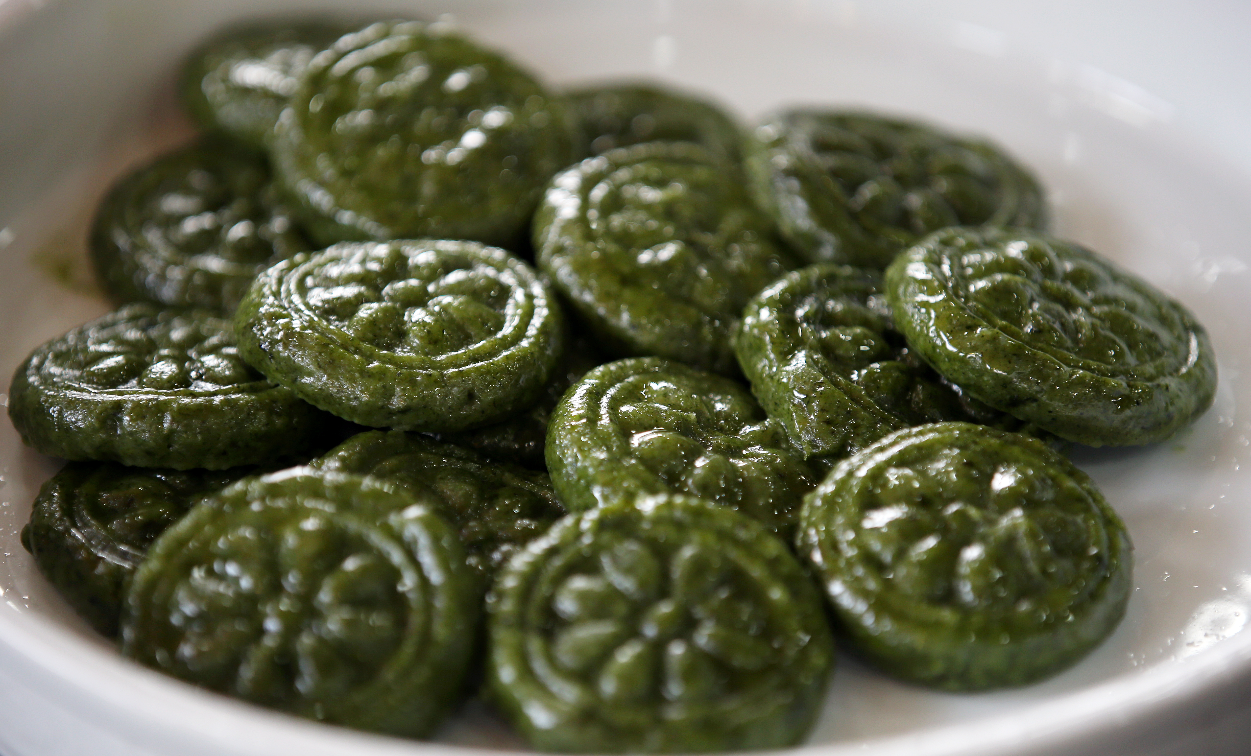 Tteok of Deltoid Synurus